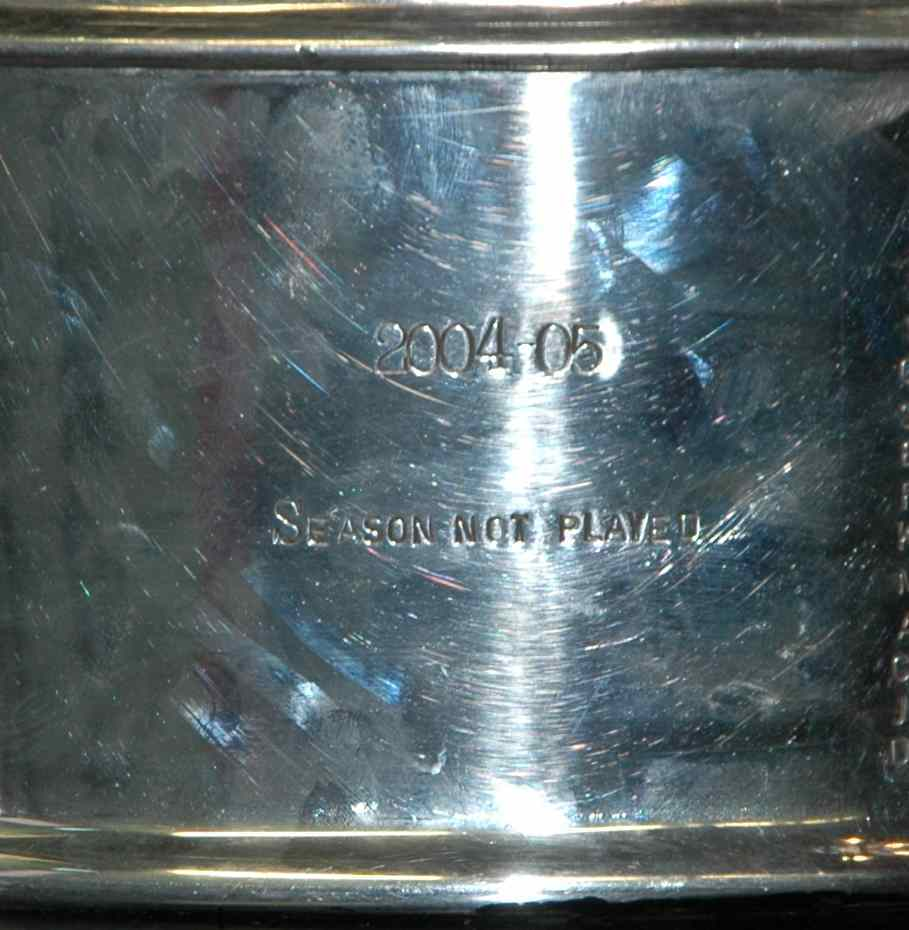 Stanley Cup Imprint for the Lockout Season 2004-05